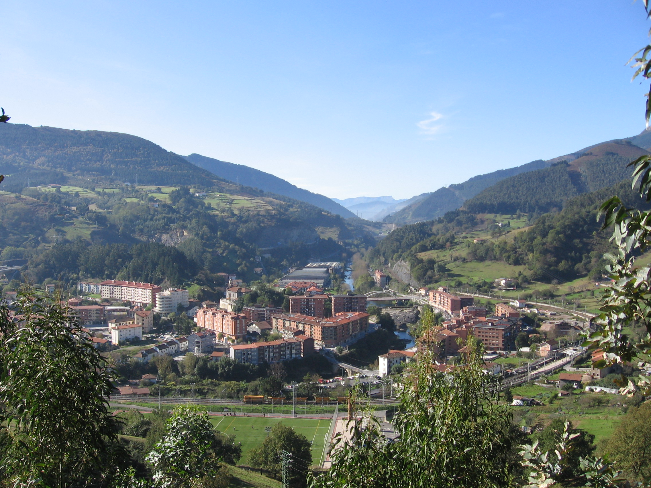 Alonsotegi, Bizkaia, Spain